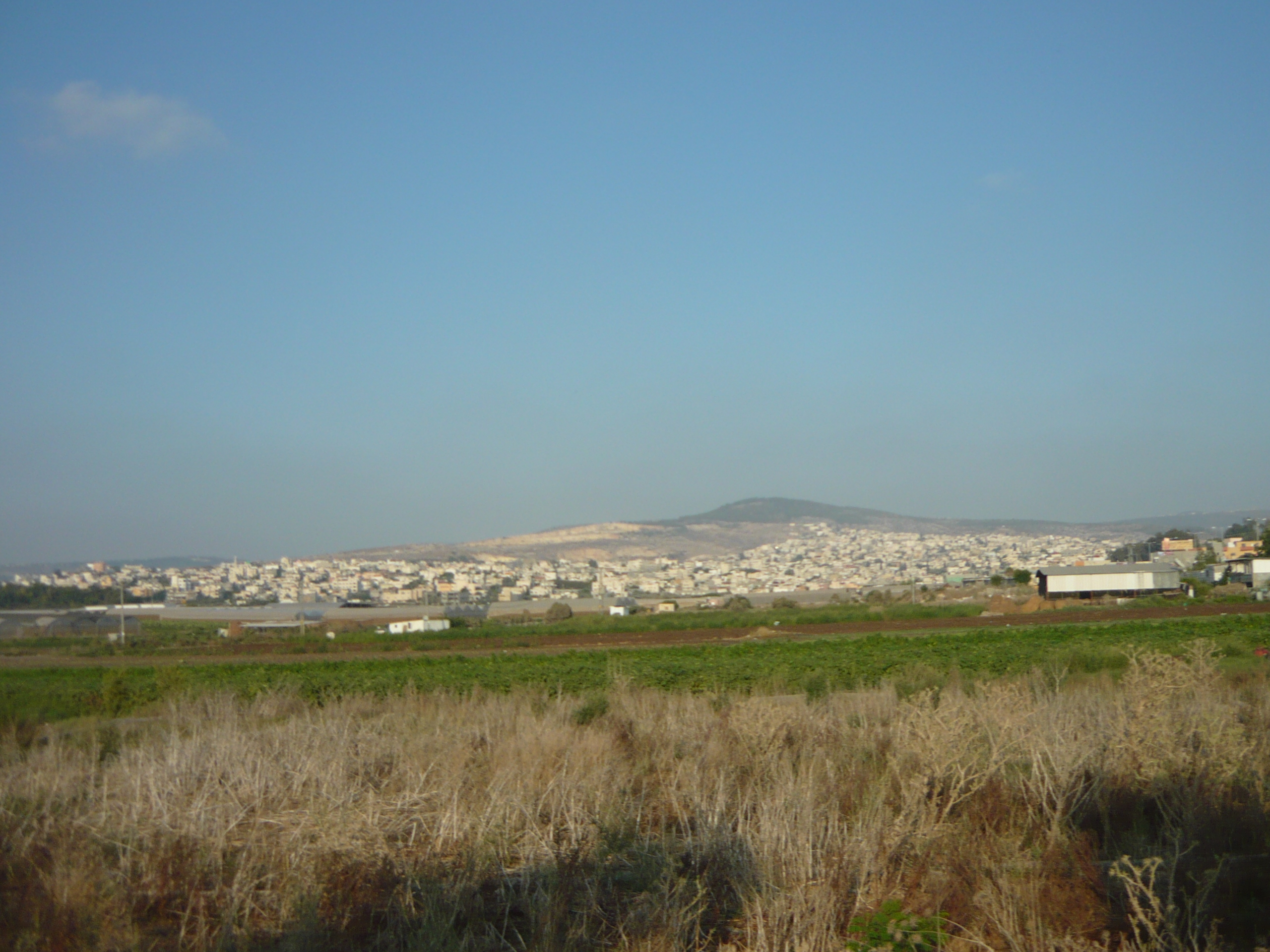 tamra מראה כללי של טמרה ממערב